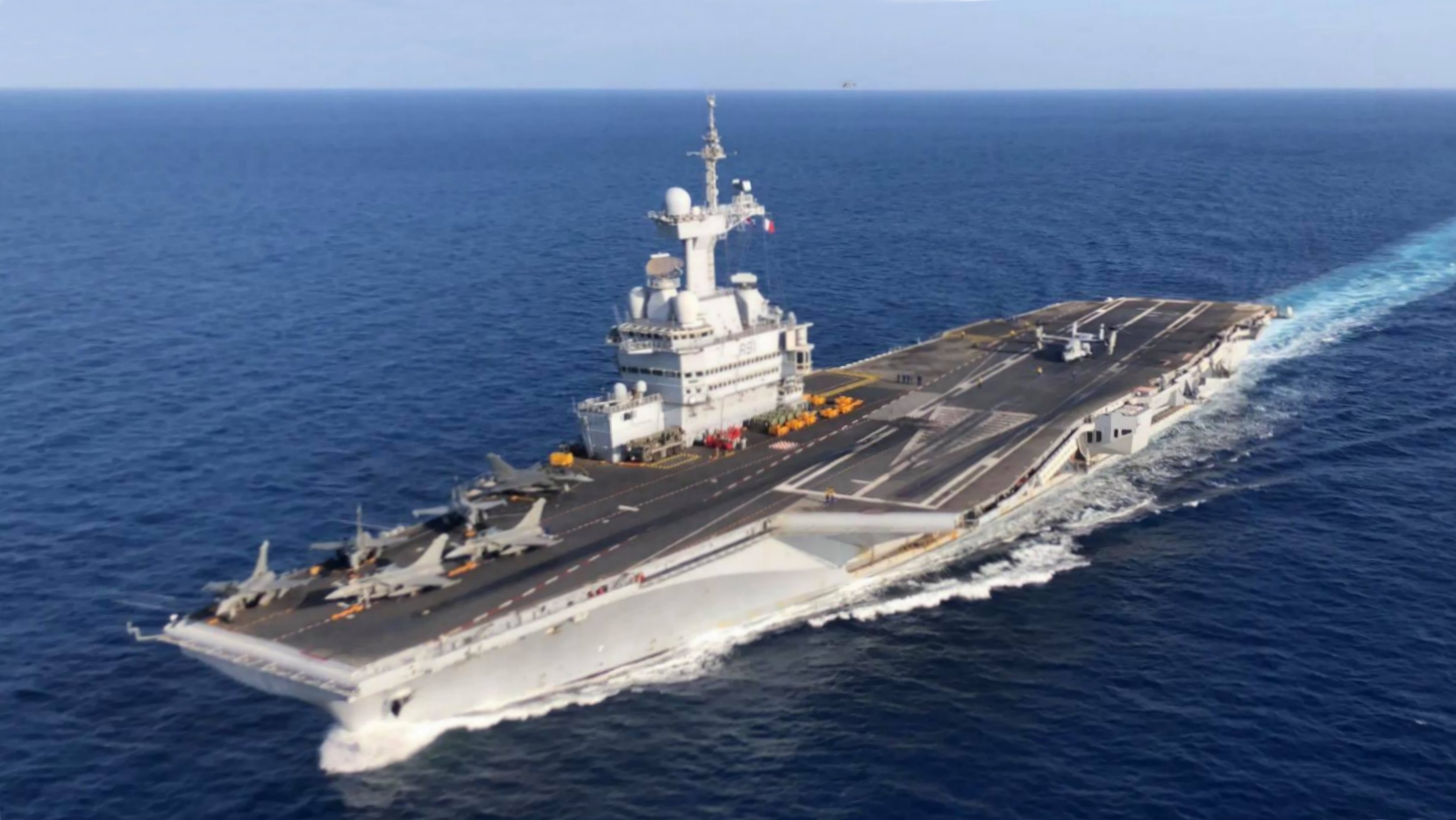 1A U.S. Marine MV-22 Osprey sits on the flight deck of the French aircraft carrier Charles de Gaulle (R91) on 24 April 2019.